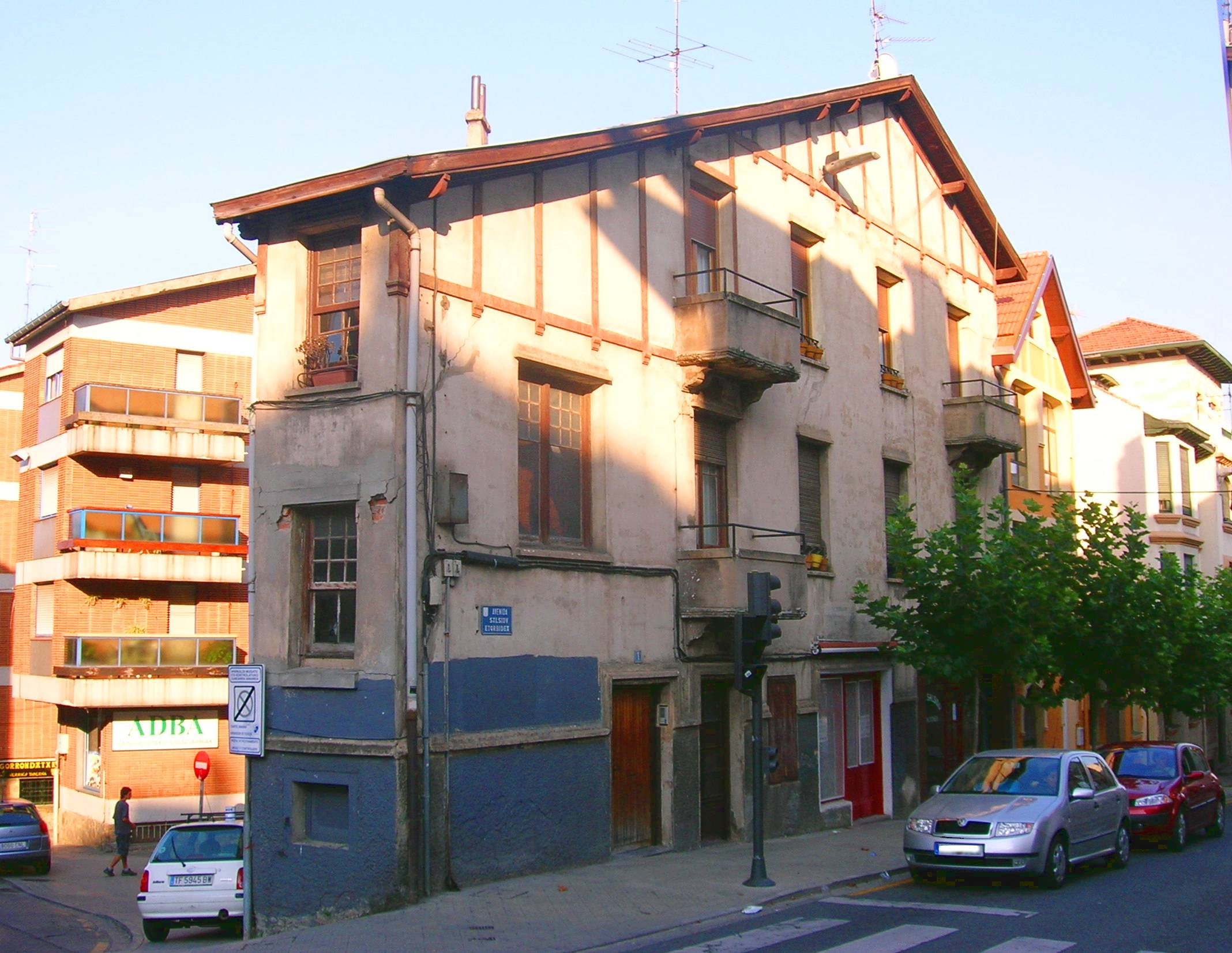 House builiding in Salsidu Avenue in Algorta, Getxo, Biscay, Spain.